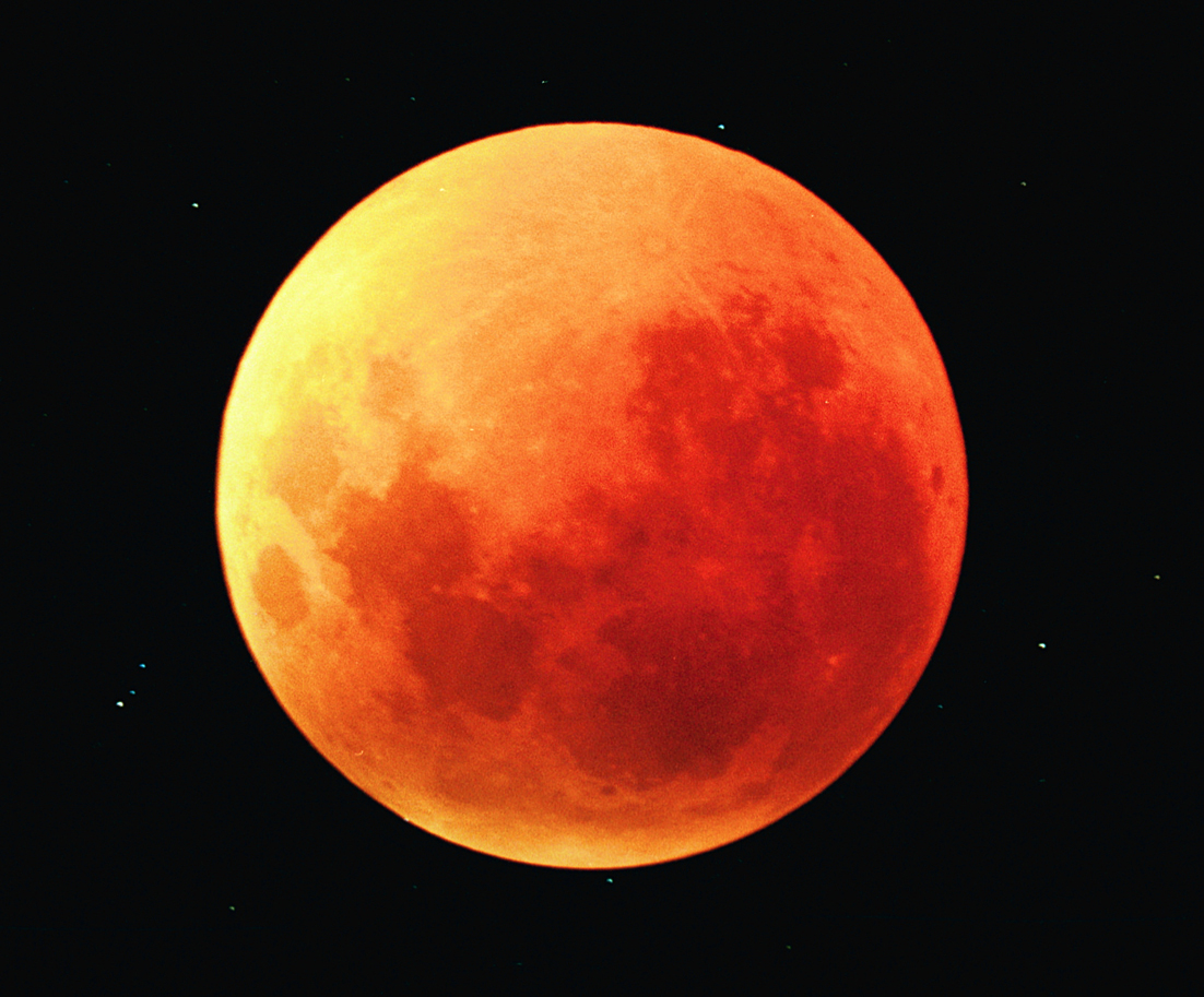 Lunar eclipse - the north of the moon is pointing down here